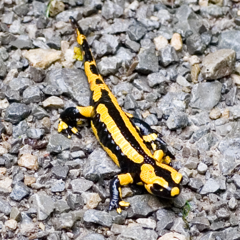 Salamandra salamandra ssp. terrestris in the Scheiterhau forest near Murrhardt, Baden-Württemberg, Germany.